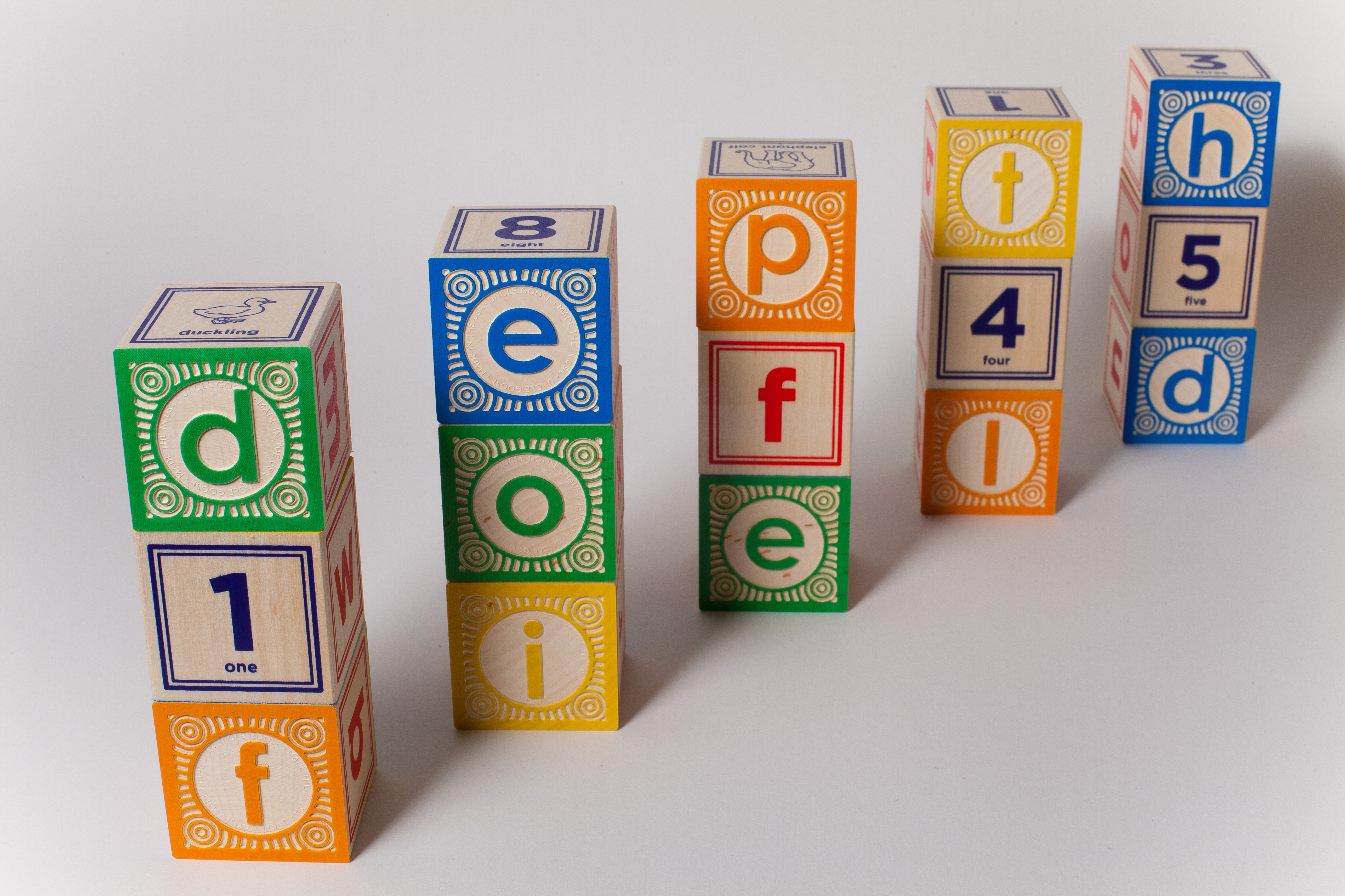 Depth of Field: Color blocks